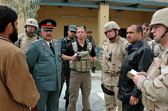 Afghan National Police Lt. Gen. Mohammed Haroon Asefi (third from left) meets with U.S. Army Maj. Gen. Robert Durbin (fourth from right) during Durbin’s visit to an Afghan National Police border-control point in Torkham, Afghanistan, Feb. 12, 2006. Asefi is chief of the Afghan National Police Border Patrol. Durbin is commander of the Office of Security Cooperation–Afghanistan. Office of Security Cooperation-Afghanistan photo by U.S. Air Force Staff Sgt. Matthew Bates